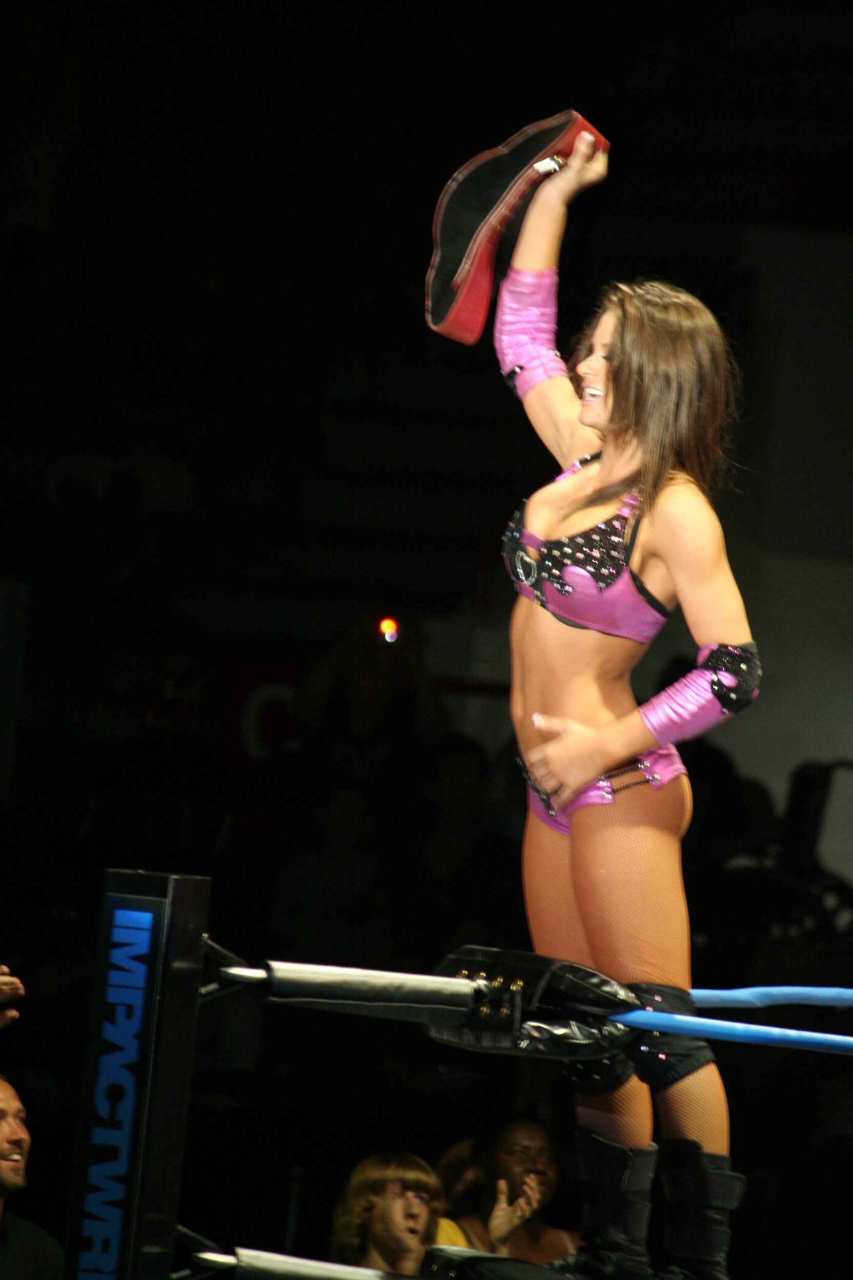 Professional wrestler Brooke Tessmacher with a TNA Knockout Tag Team Championship belt at a TNA live event.